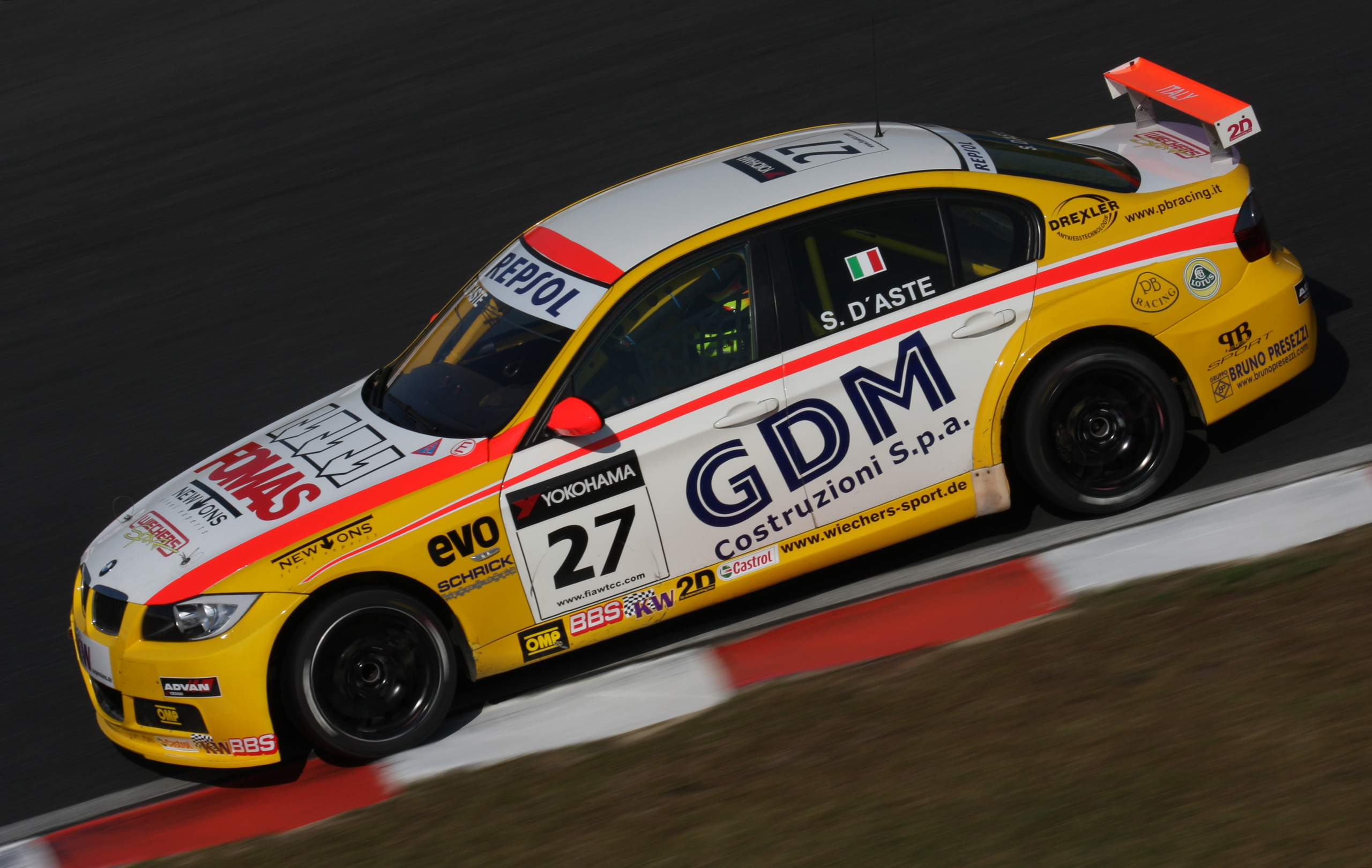 World Touring Car Championship 2009 Race of Japan: Stefano D'Aste (Wiechers-Sport) at free practice.